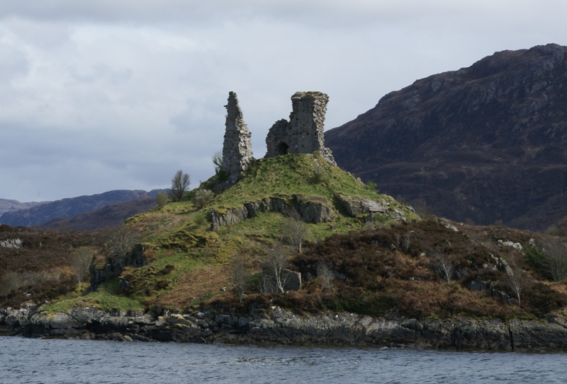 Castle Moil aka Caisteal Maol, Skye, Scotland